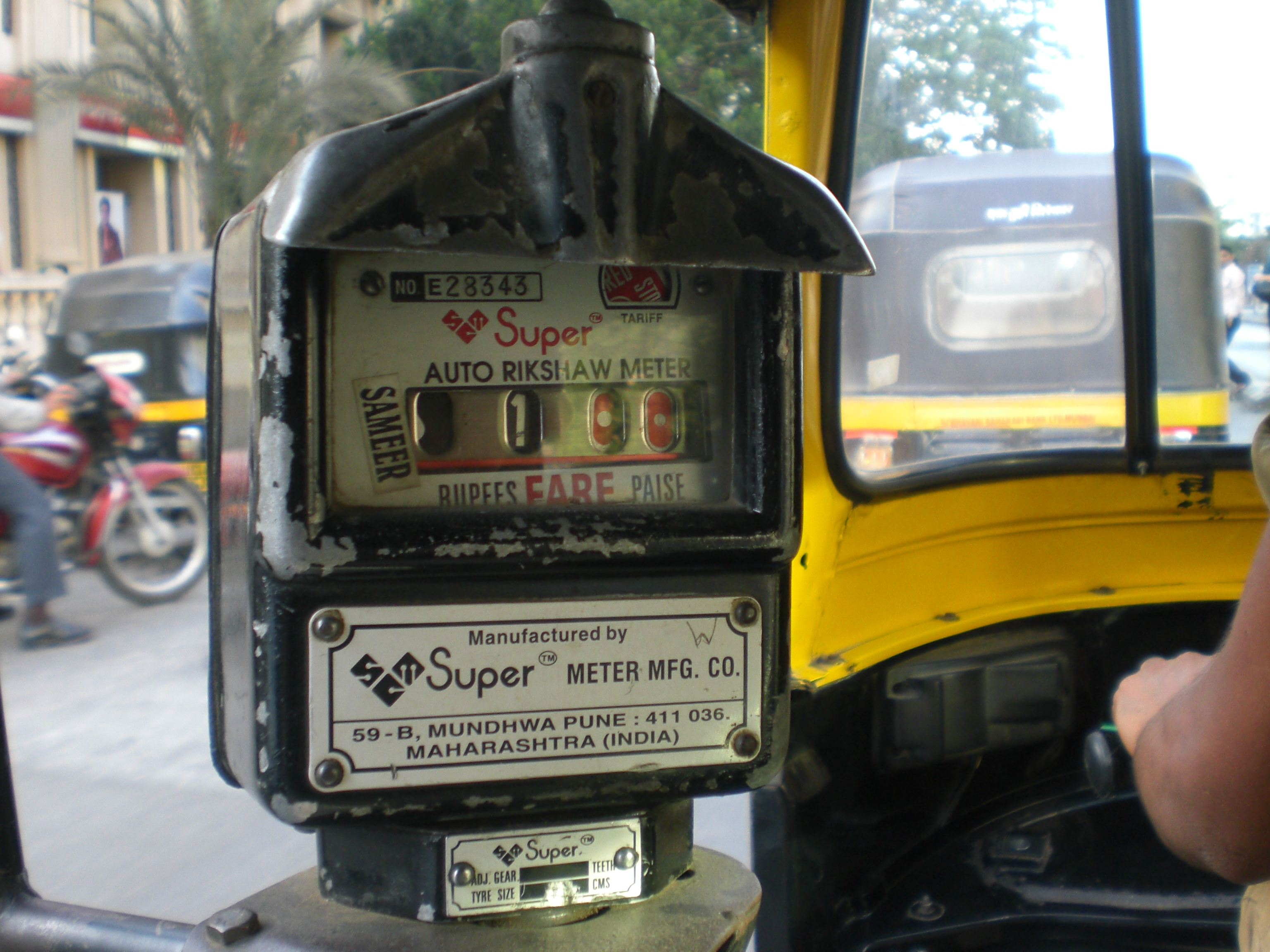 A mechanical "Super Auto Rickshaw Meter" on a auto rickshaw in Mumbai. It displays the base fare of 10 Rupees. In Mumbai there are only mechanical meters for rickshaws as of 2010. Similar models are still very common in old taxis.